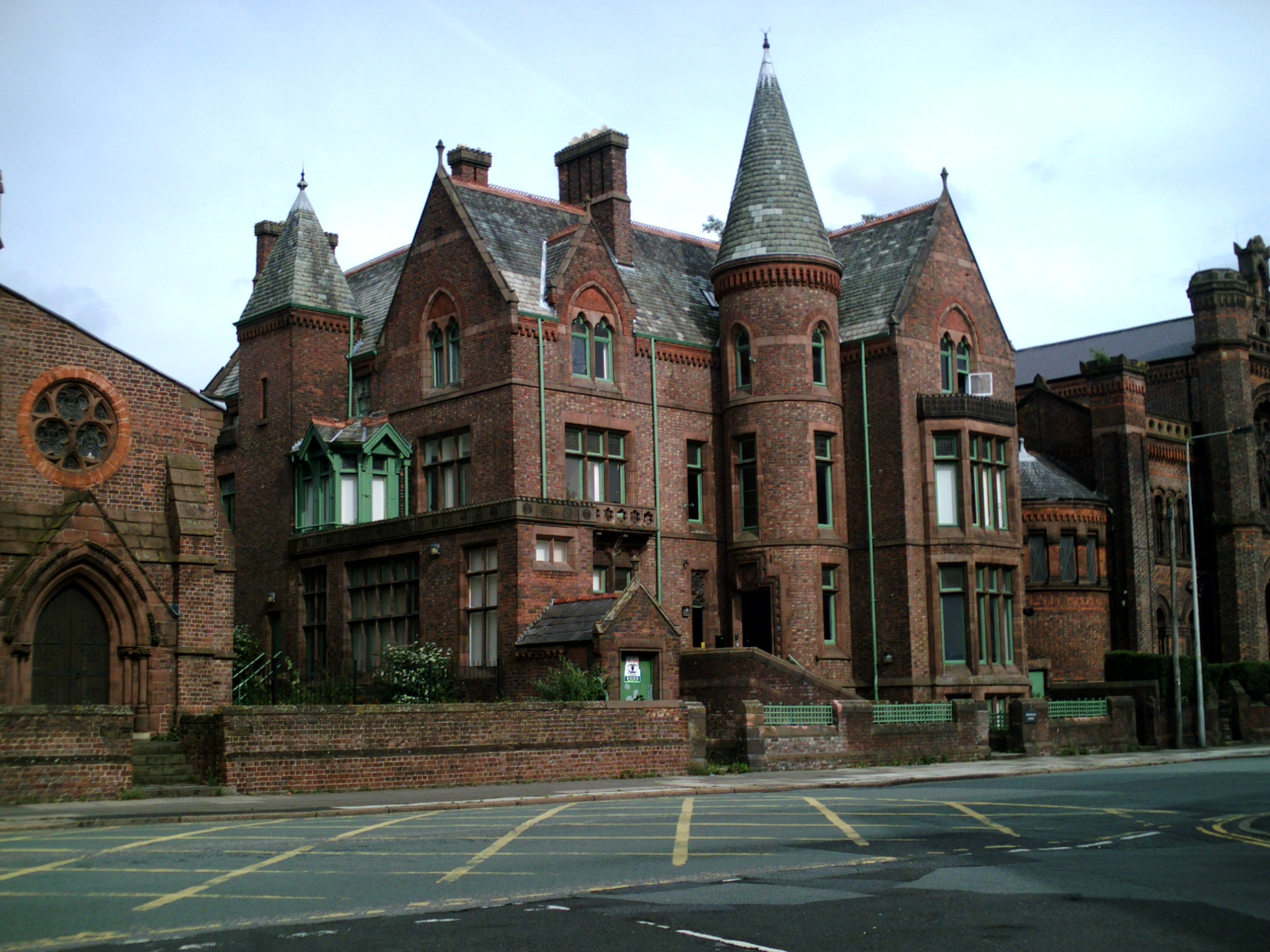 Built in 1871 and designed by William and George Audsley (who also designed the adjacent synagogue), for wool broker James Lord Bowes and his collection of japanese art. Sometimes named as "Streatham Tower", but not according to Pevsner. Came into the possession of the Duchy of Lancaster and is now student flats. Let's hope they respect its Grade II listed status.